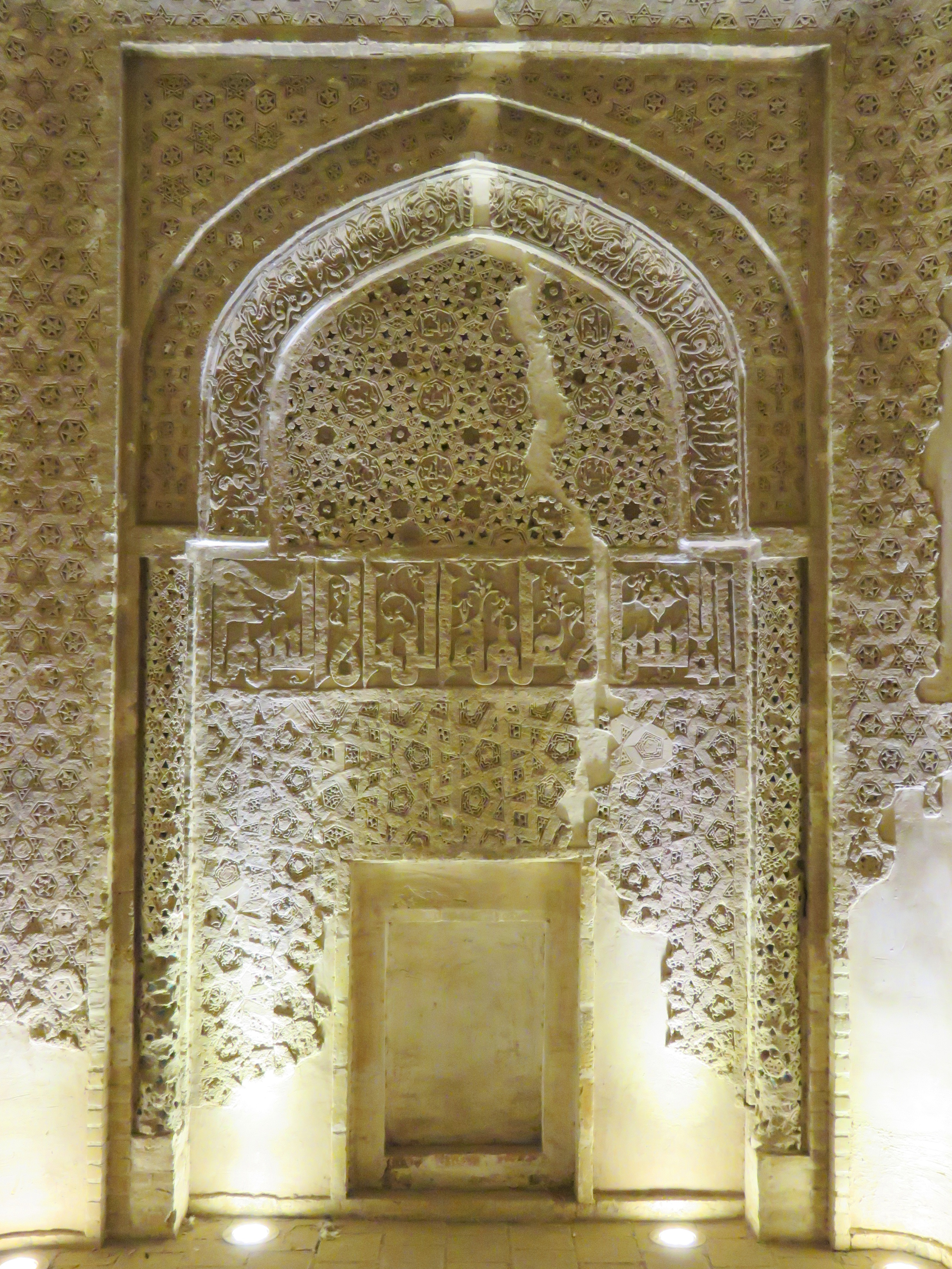 Tomb of Khajeh Atabak